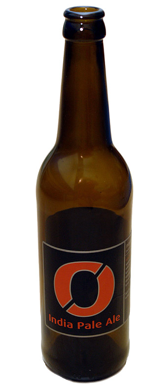 Nøgne Ø India Pale Ale -beer. Brewer Nøgne Ø from Grimstad, Norway.